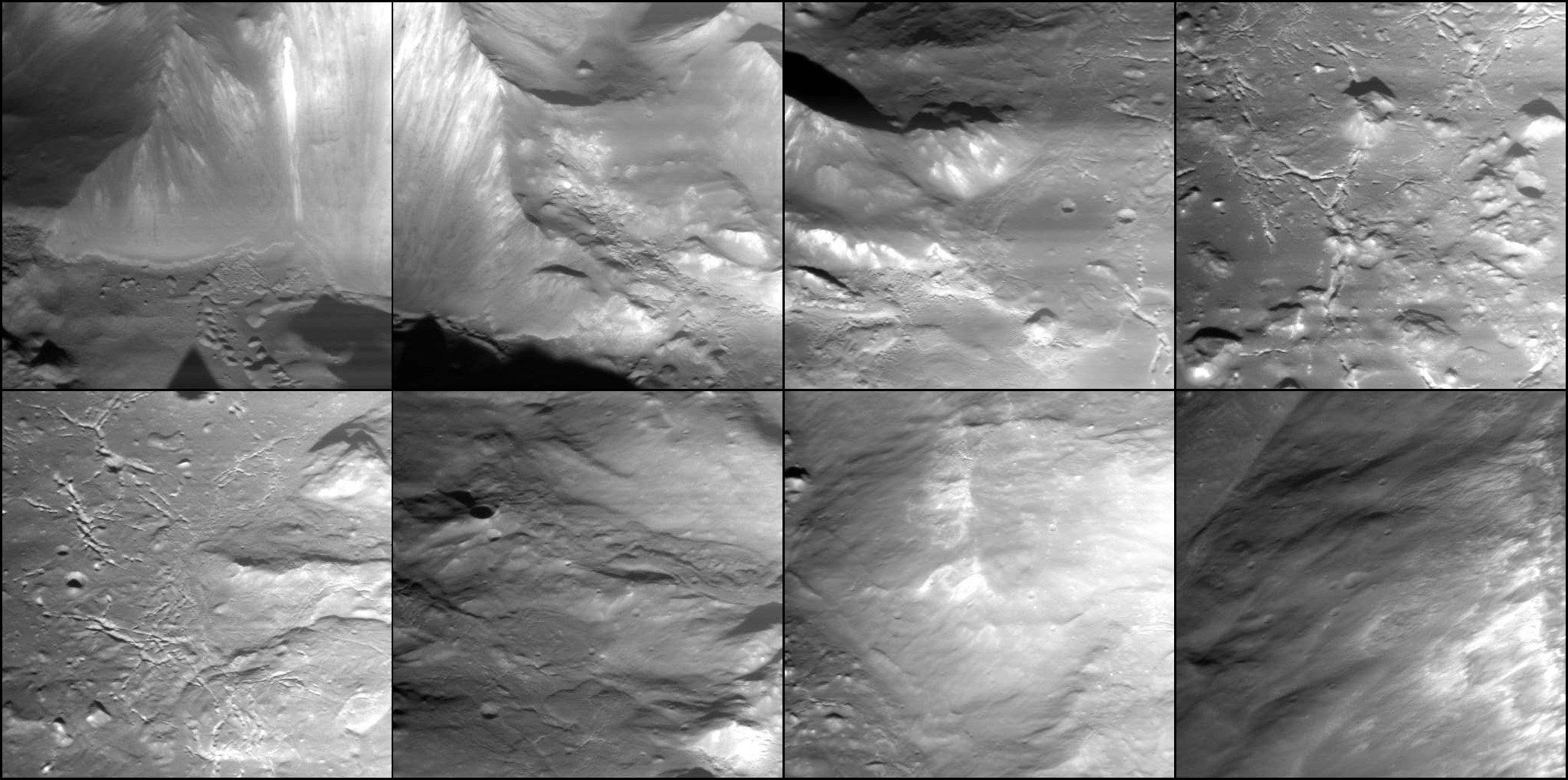 Sequence of adjacent but non-overlapping images acquired by MESSENGER Narrow Angle Camera (NAC) of the interior of Degas crater on Mercury. All images are oblique and looking northwest. The upper left three images show the central peak. The upper right and lower left images show the fractured crater floor. The two central bottom images show terraces and flow structures on the northern slope of the crater wall. The lower right image shows the crater rim. Distance across foreground in each image is approximately 2.5 km. The images were acquired less than 1.5 months before the end of the mission (impact on Mercury's surface). Images are: EN1067272296M EN1067272297M EN1067272298M EN1067272299M EN1067272300M EN1067272301M EN1067272302M EN1067272303M